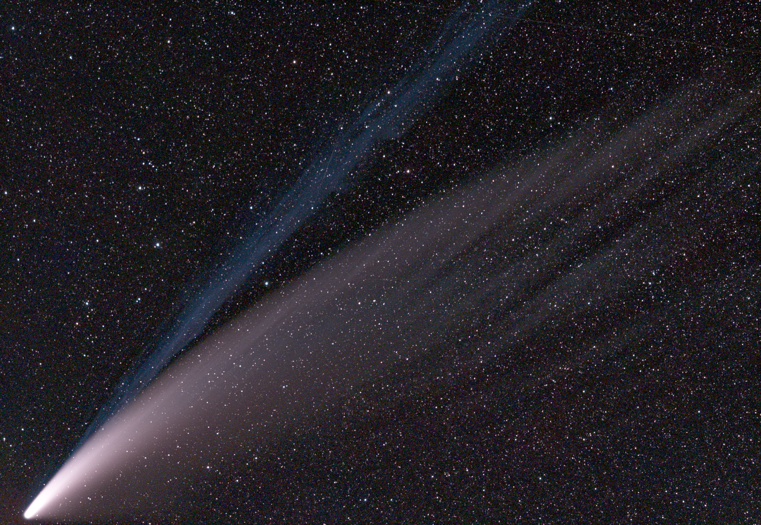 Image is aligned to stars. Total exposure time was 15 min.